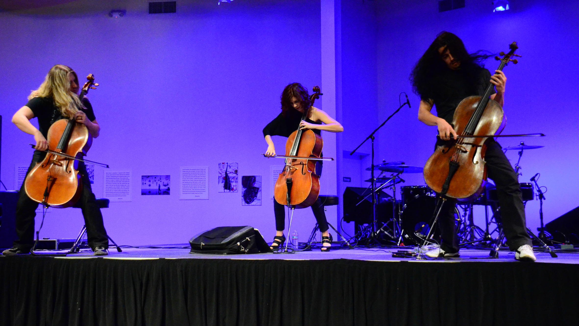 Cello Fury in Concert at the Grounds for Sculpture